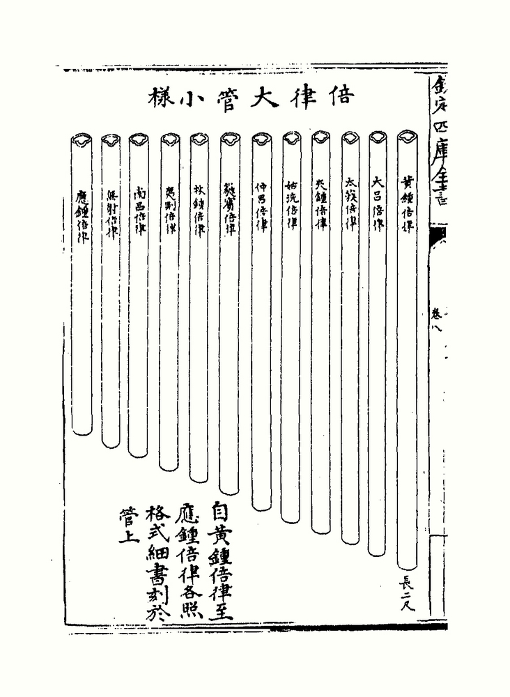 Equal temperament base pitch pipes